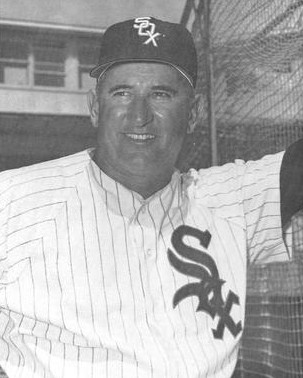 Professional baseball manager Al Lopez